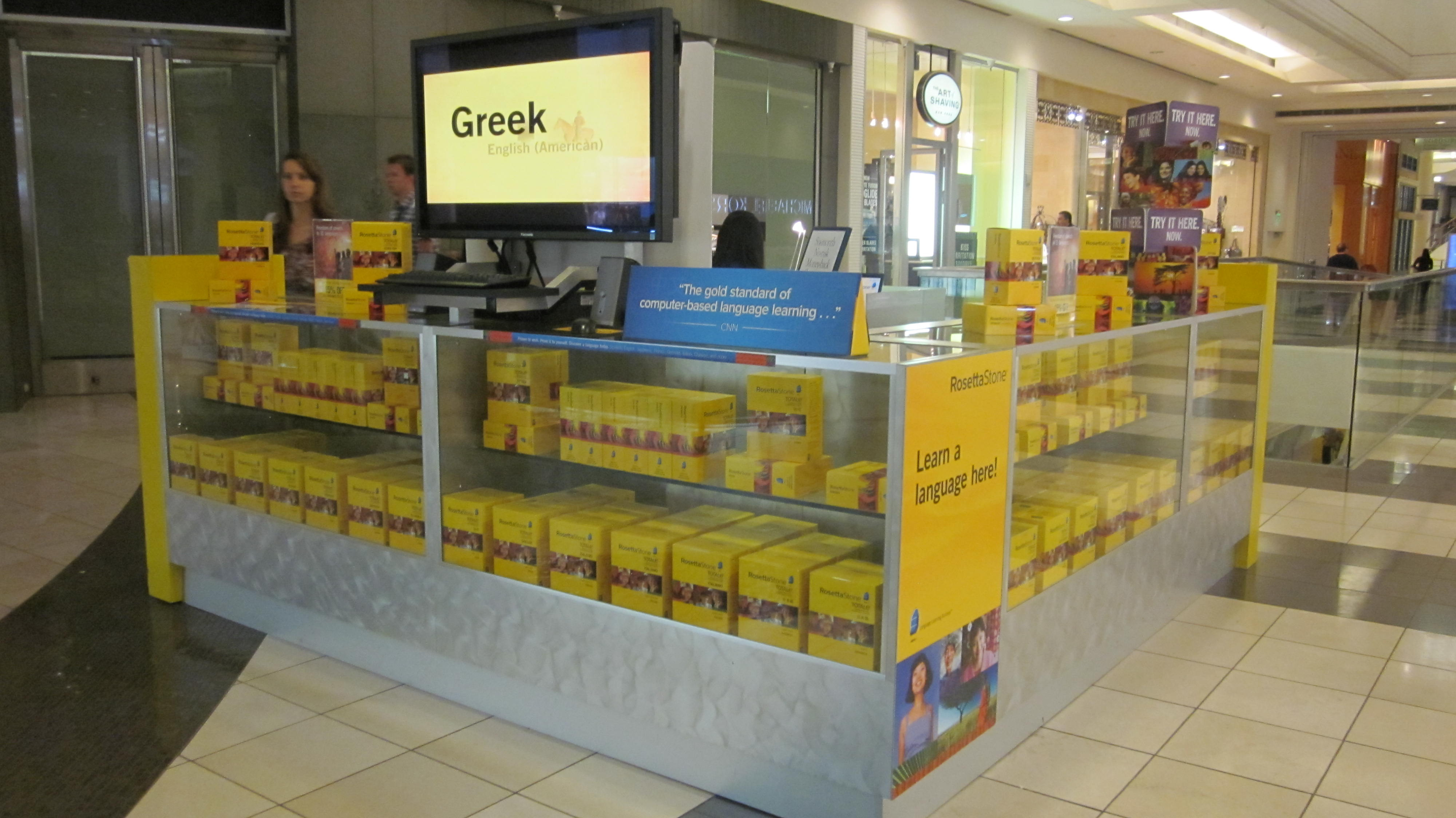 The Rosetta Stone booth at the Westfield San Francisco Centre, San Francisco